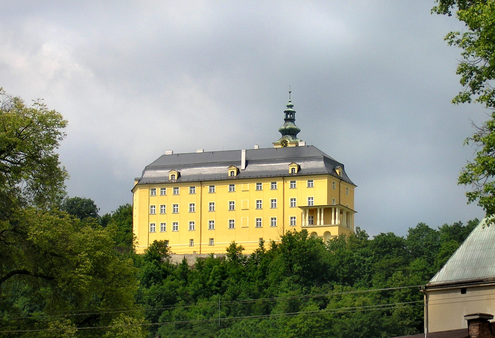 Fulnek castle in Fulnek, Czech Republic